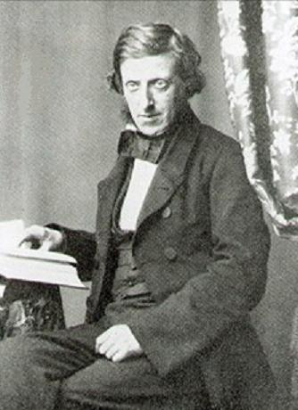 Frederick Scott Archer (1813-1857), British photographer.